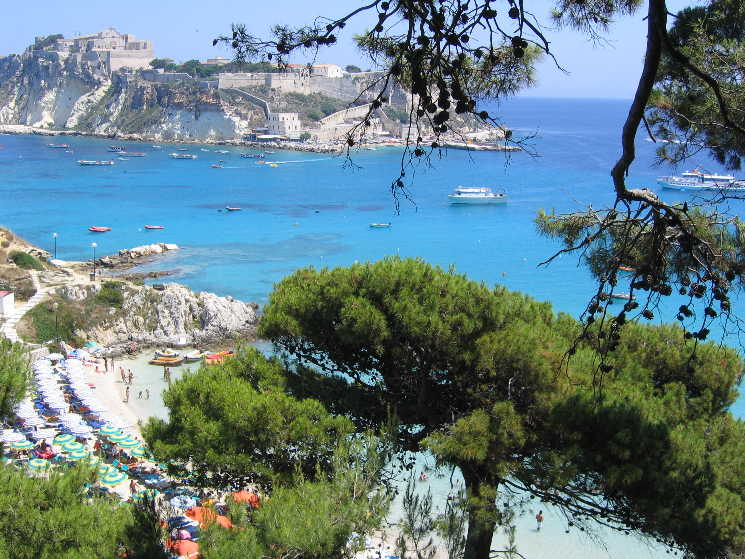 San Nicola from San Domino. In front of the picture you can see a wonderfull small sandy beach with cristal water.